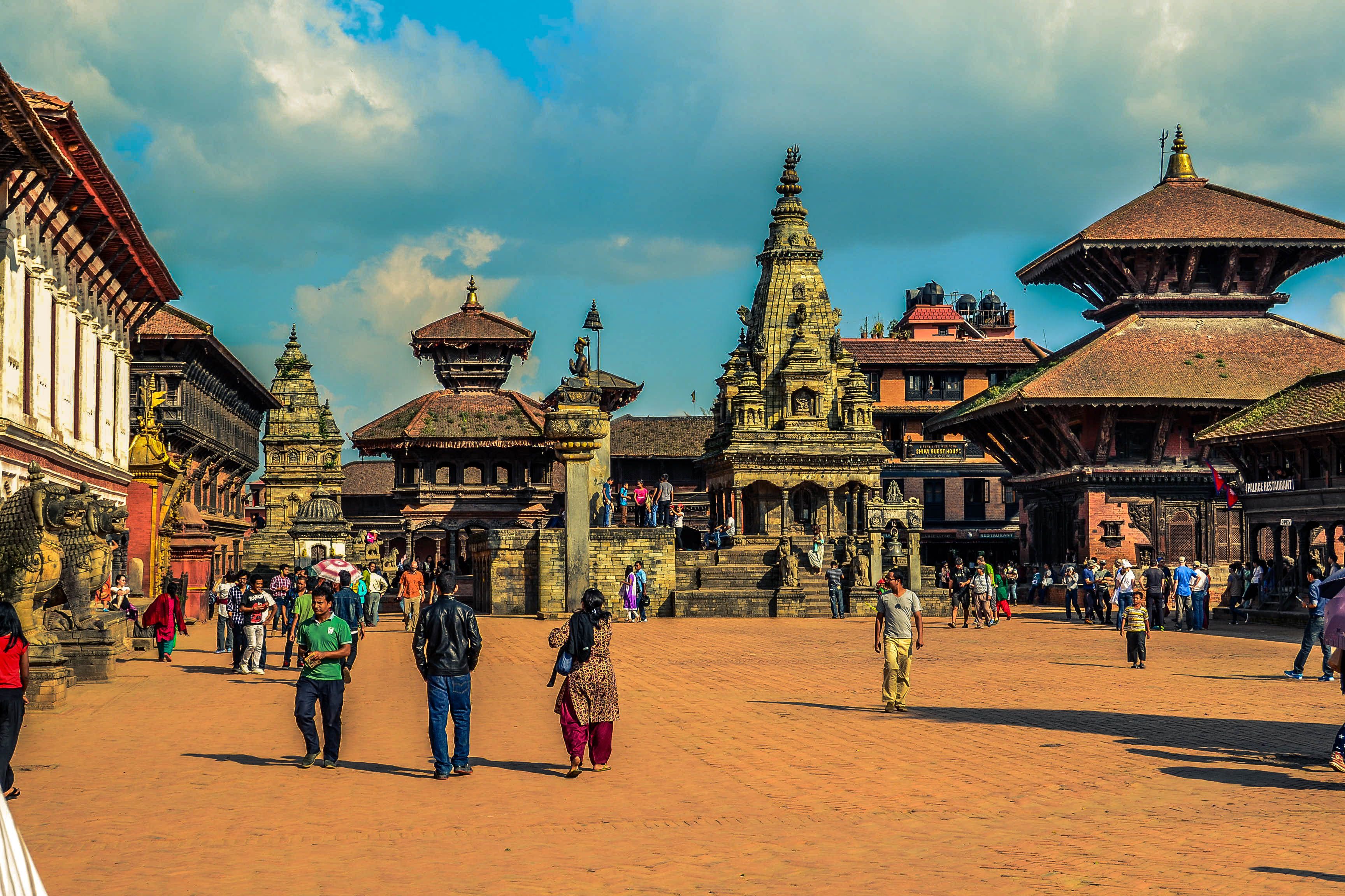 Bhaktapur Durbar Square